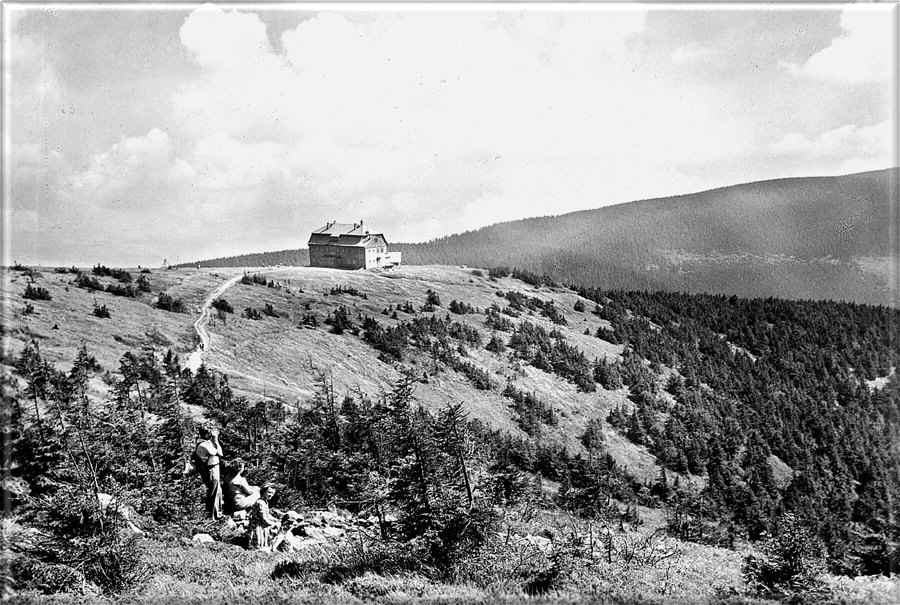 Liechtensteinschutzhaus - old postcard